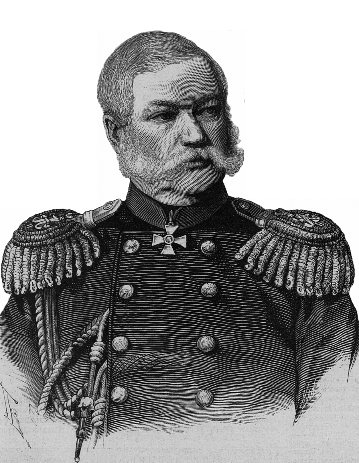 Baumgarten, Aleksandr Karlovich.